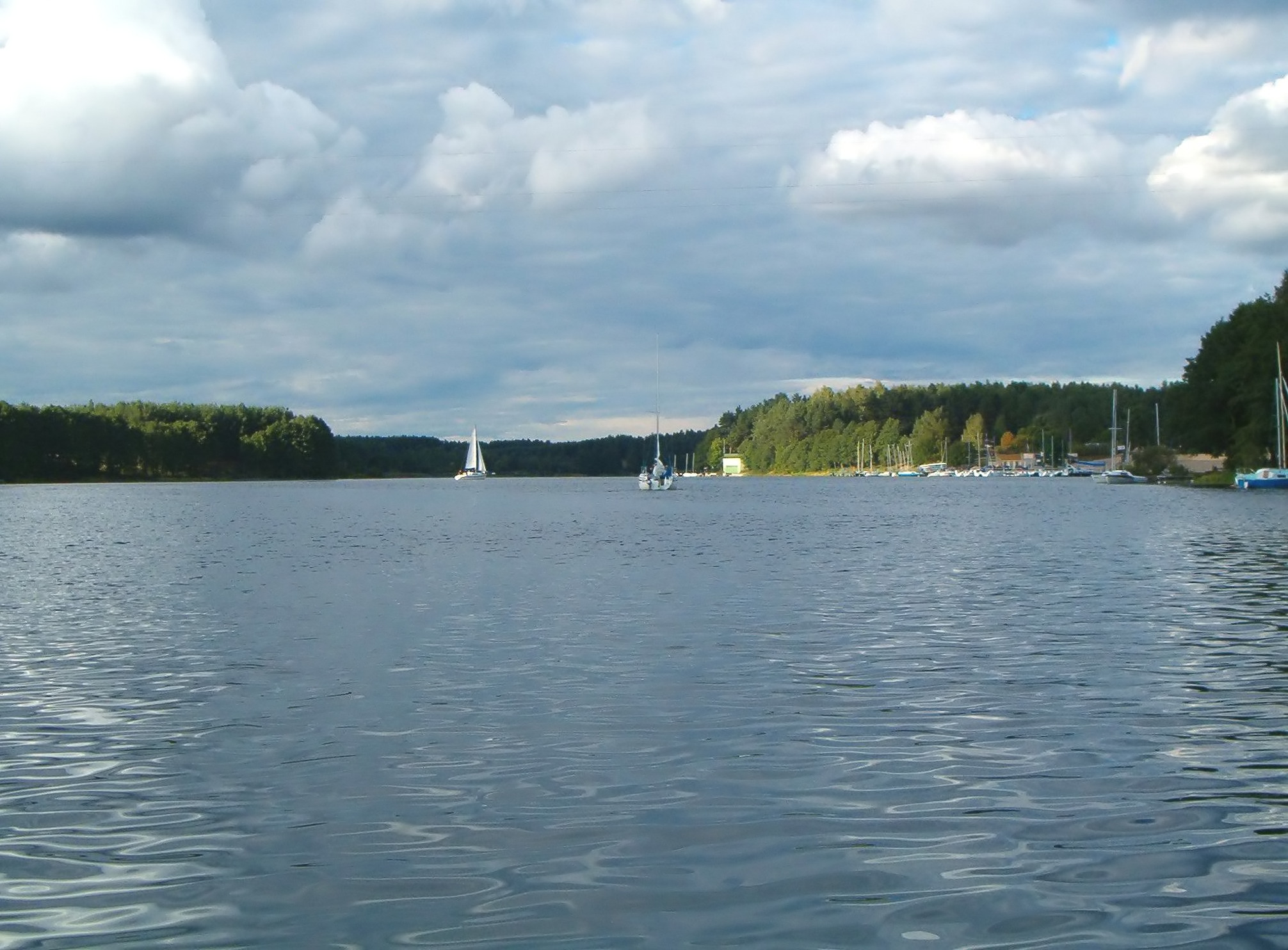 Jelenie Lake in Kashubia (Poland)